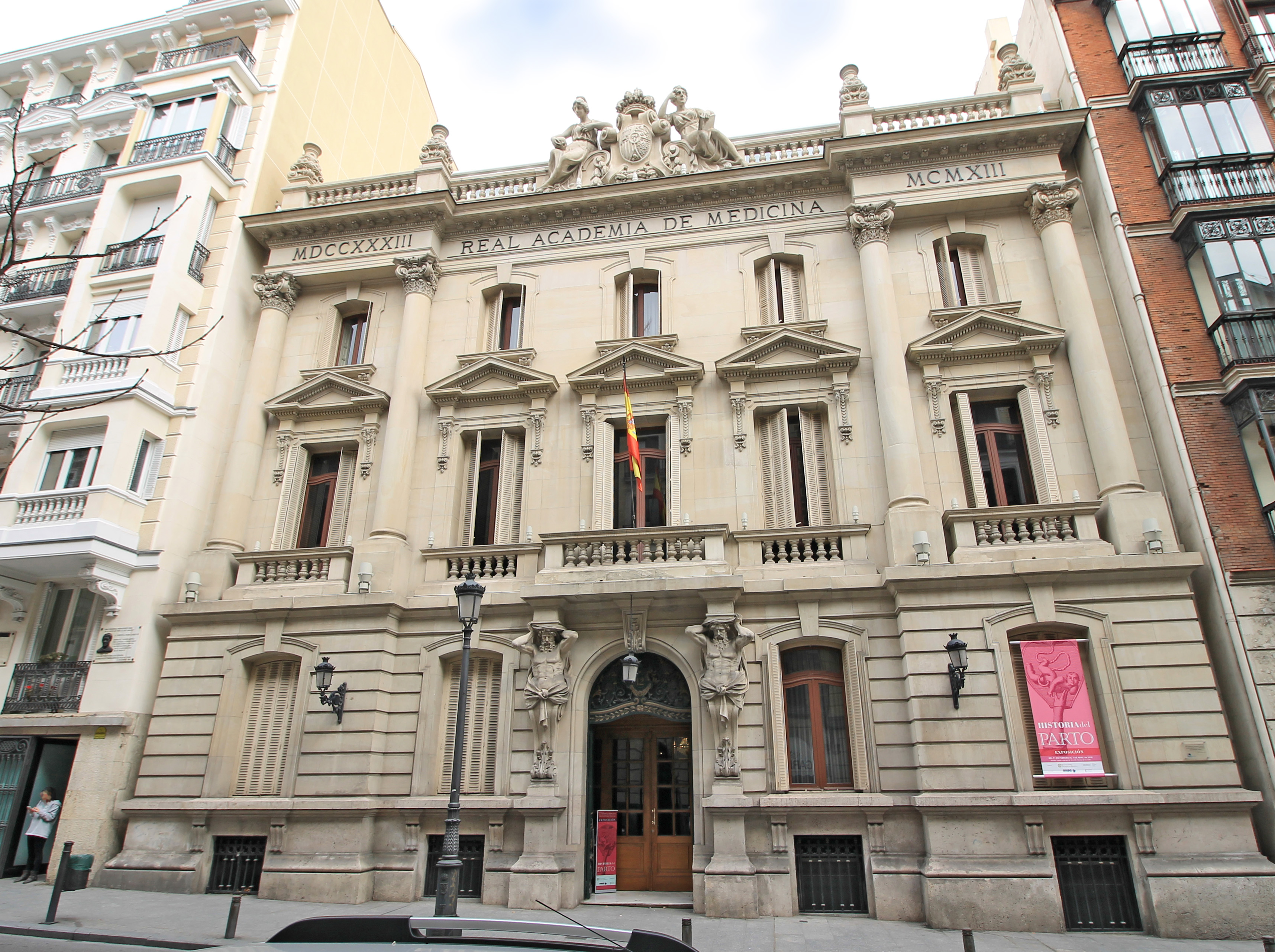 The headquarters of the Royal Academy of Medicine of Spain, in Madrid.